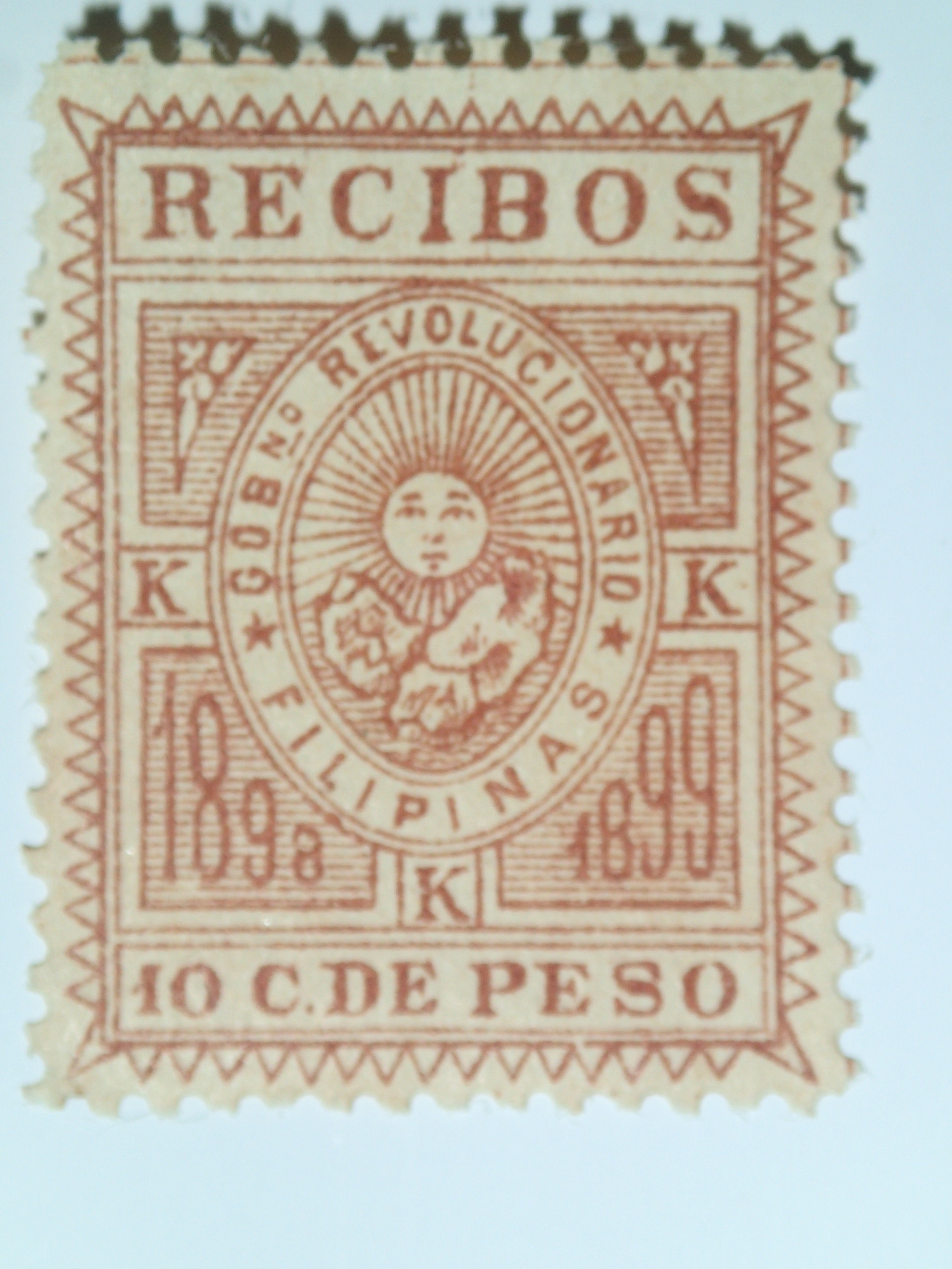 10 centimos Recibos (receipt) Revenue First Philippine Republic 1898 Warren #W-334 Warren, Arnold H. (December 1967). "Fiscal Stamps of the Philippines: Handbook-Catalogue, 1856 to date". American Philatelist 81: 228. American Philatelic Society.